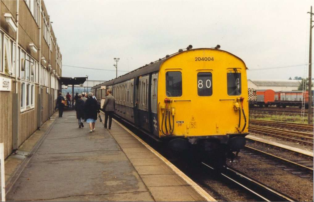 British rail class 204 DEMU at Eastleigh